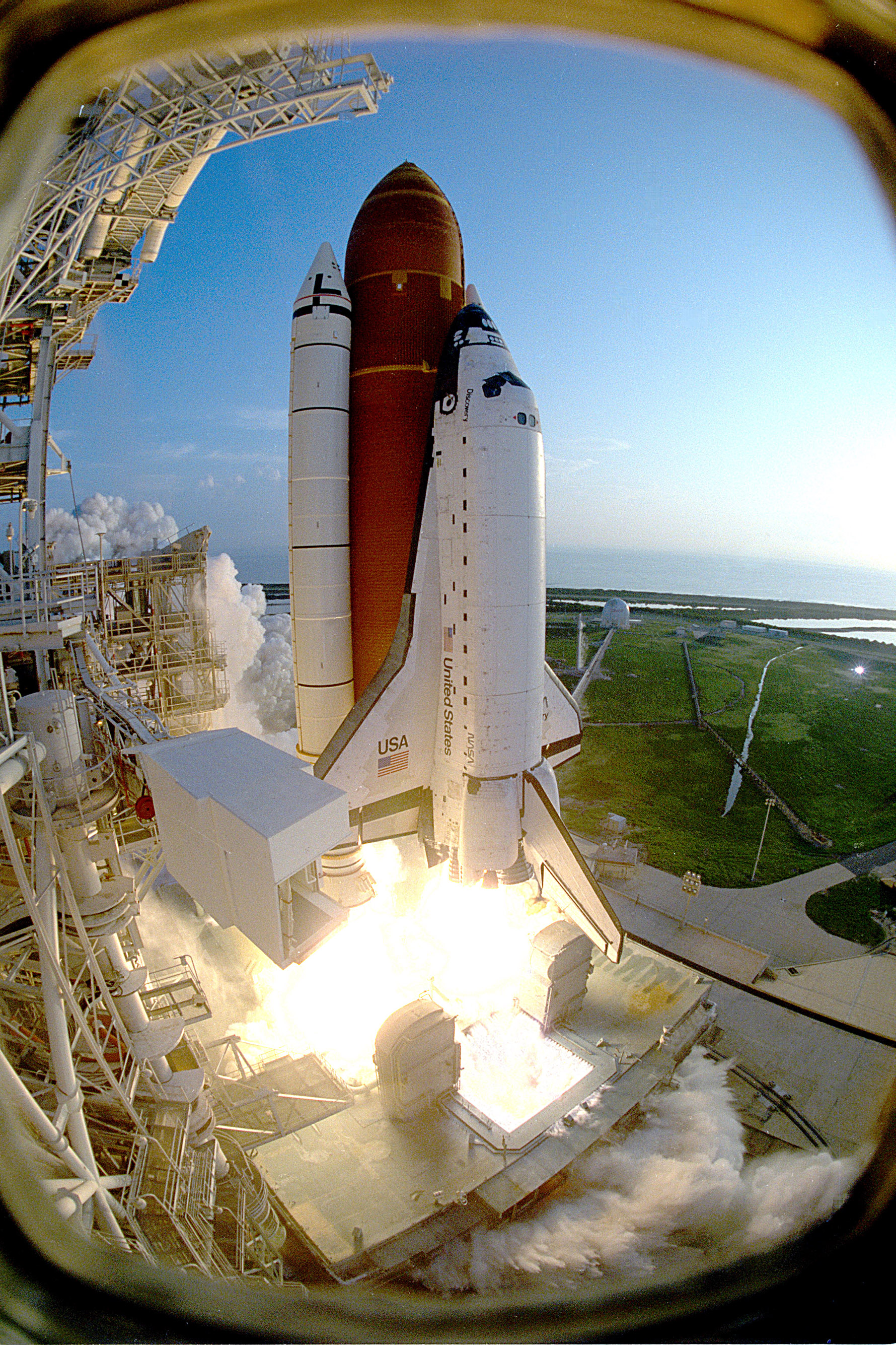 Launch of Discovery on mission STS-51 viewed from a remotely operated camera.